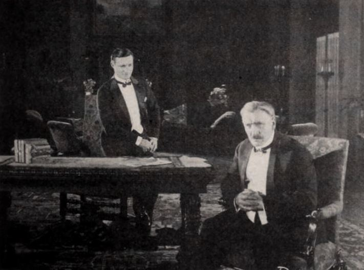 Still from the American western film Trailin (1921) with Tom Mix, on page 69 of the December 10, 1921 Exhibitors Herald.